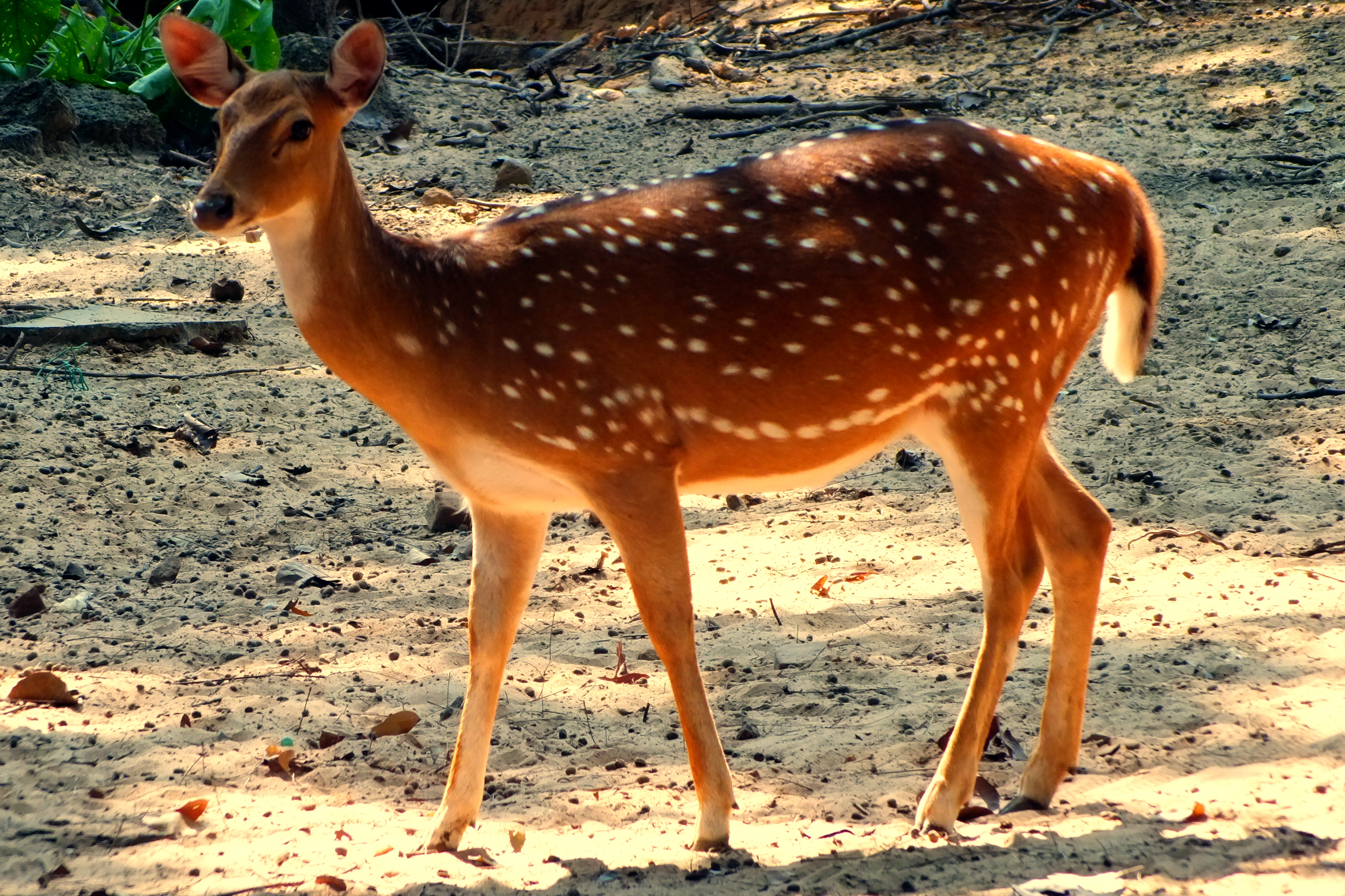 Cheetal Deer in open forest and basking the sun-rays among the trees of Jhargram sal forest (Deer Park)